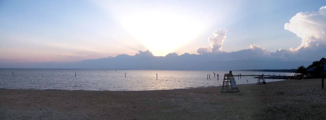 Huntington Park Beach at approaching sunset, after a rainstorm